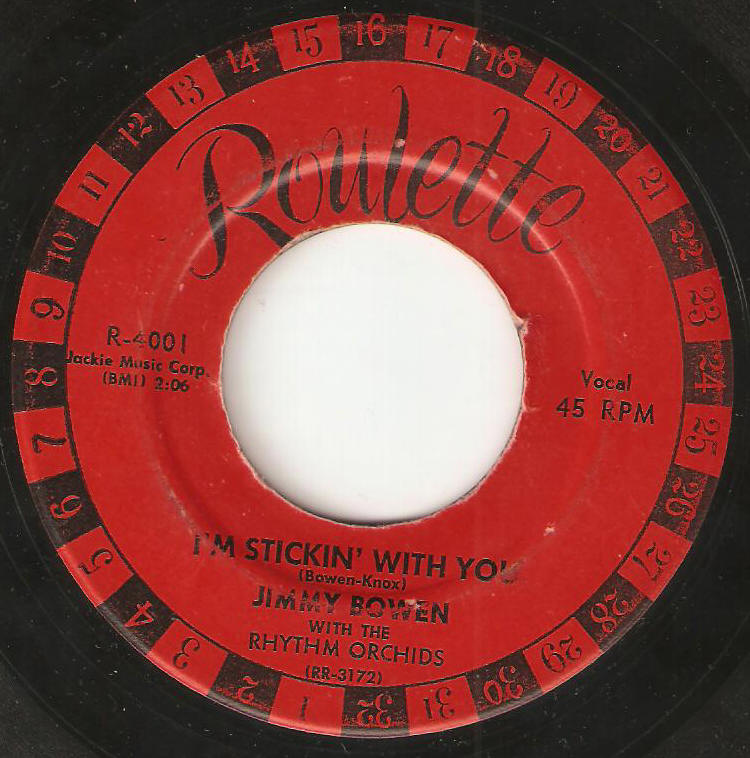 I'm Stickin' with You by Jimmy Bowen, Roulette 1957.